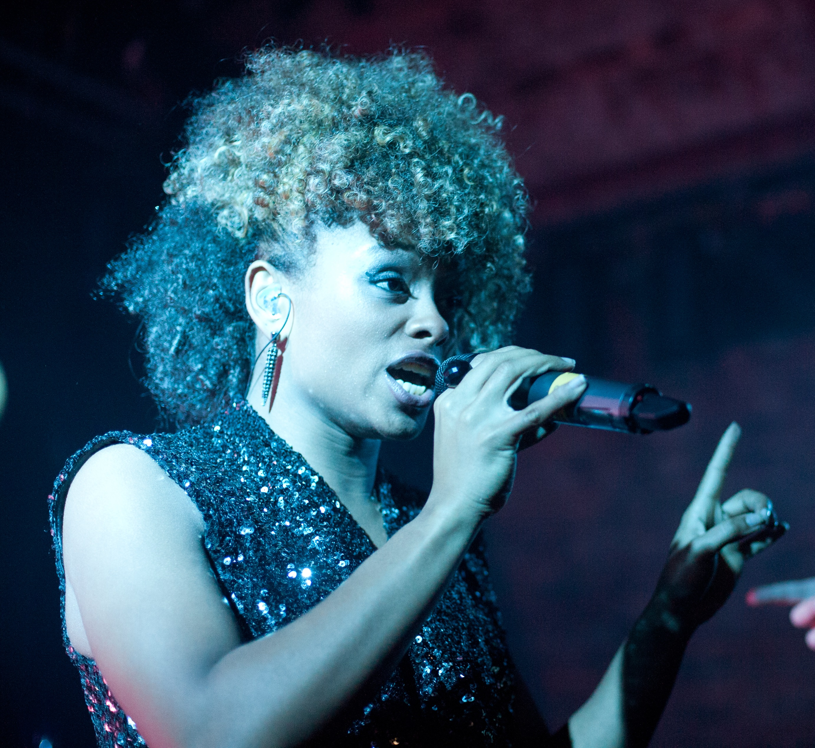 Fleur performing with dubstep/drum n bass producer DJ Fresh at the Arches as part of his first ever live show on Wed 23rd Nov. Images: Dasha Miller.